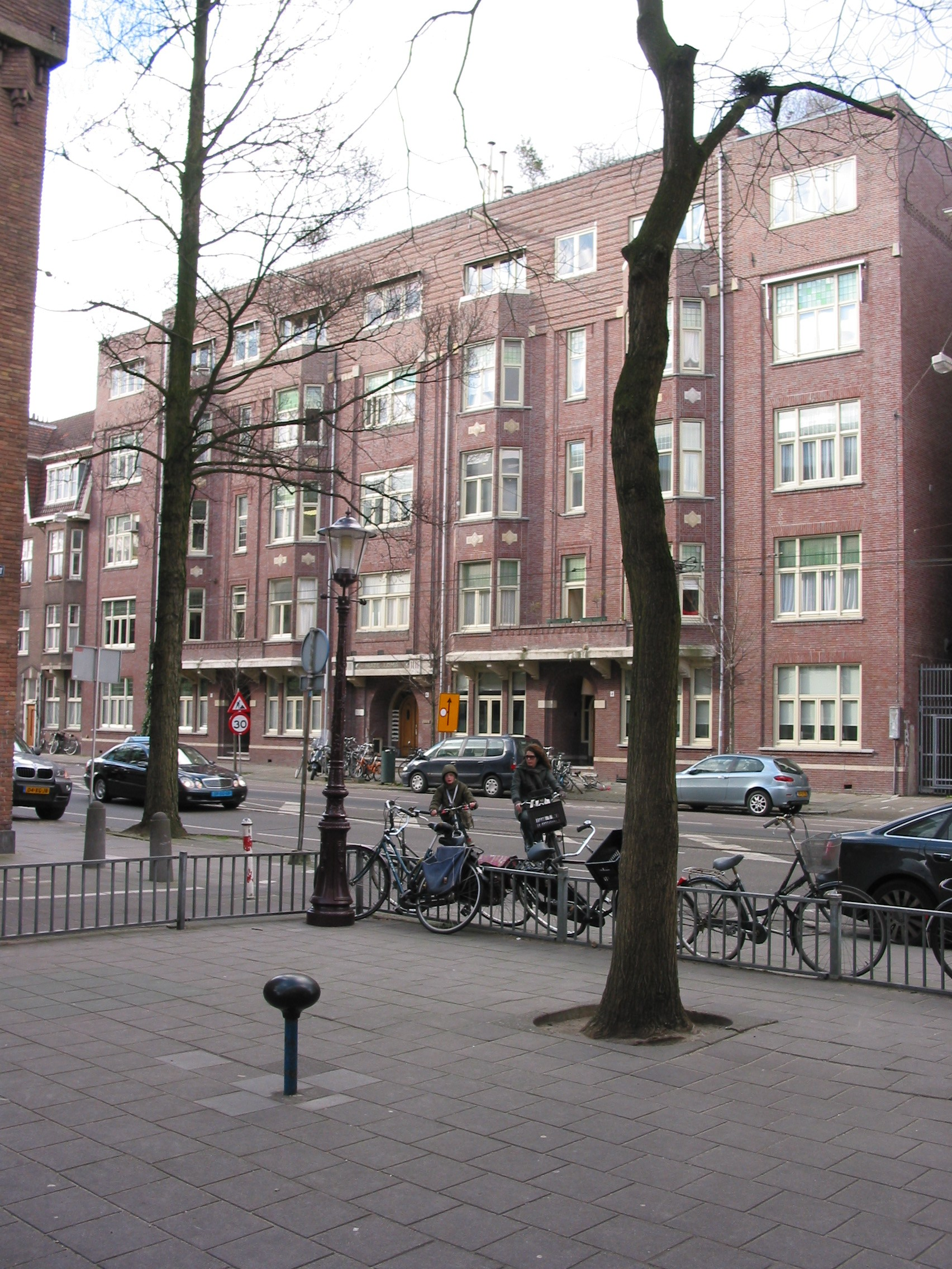 Loma House, De Lairessestraat 4-8, Amsterdam, seen from Hondecoeterstraat [built in 1914 by architect F.A. Warners].